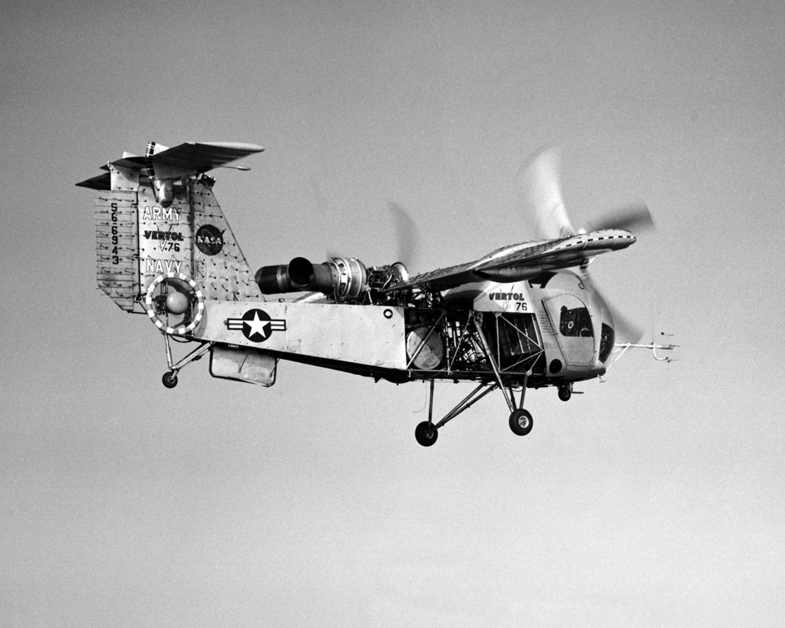 A Vertol VZ-2 (Vertol 76) in flight.